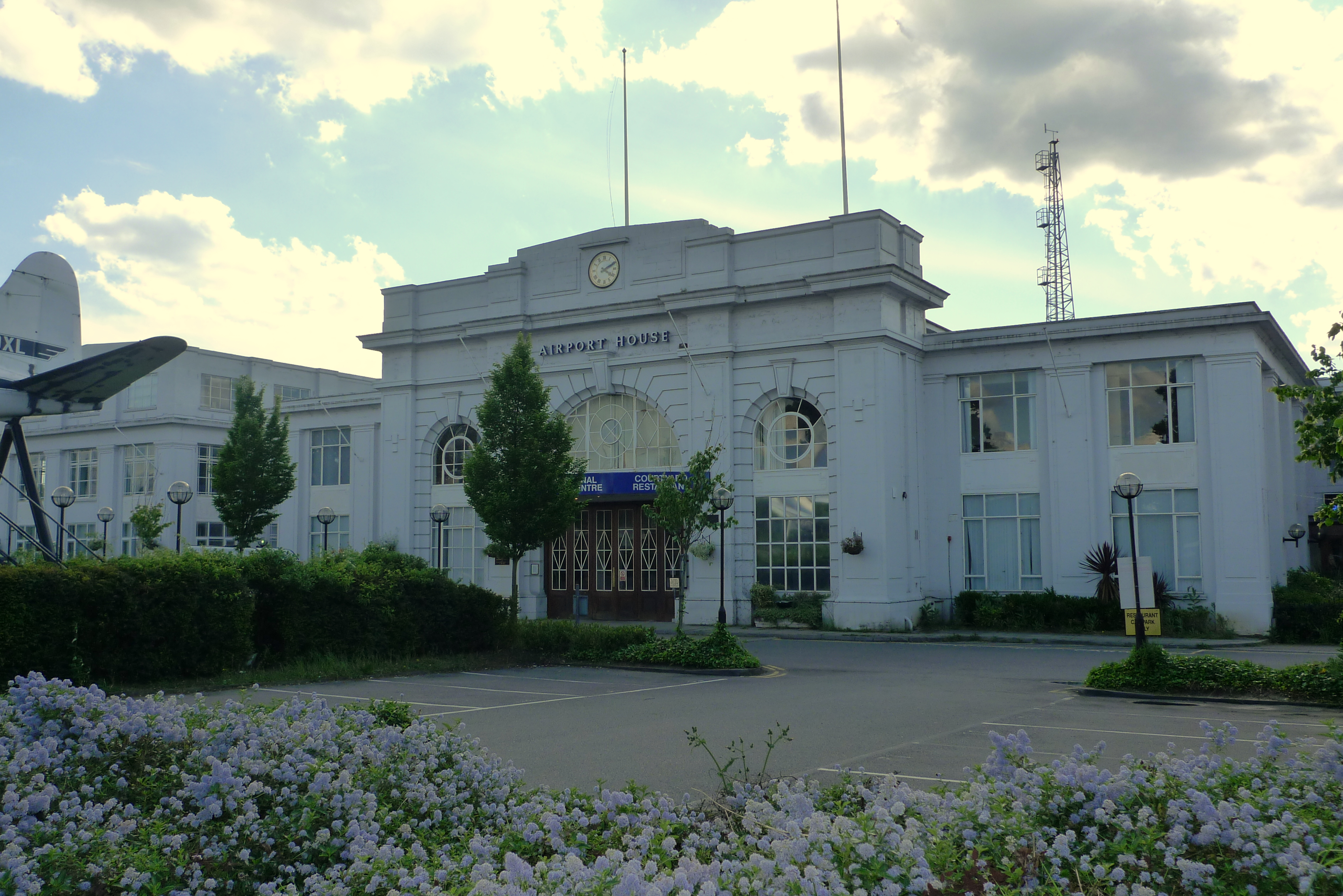 Airport House, Purley Way, Croydon. Formerly Croydon Airport, this Grade II listed building was the first purpose- built air passenger terminal building in Britain, and incorporates an air control tower. Airport House at English Heritage